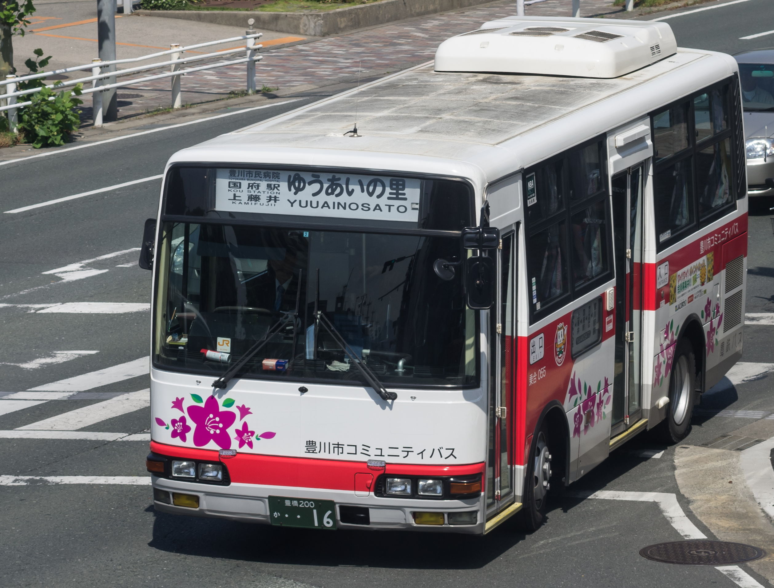 Vehicle of Toyokawa City Community Bus Toyokawa-Ko Route